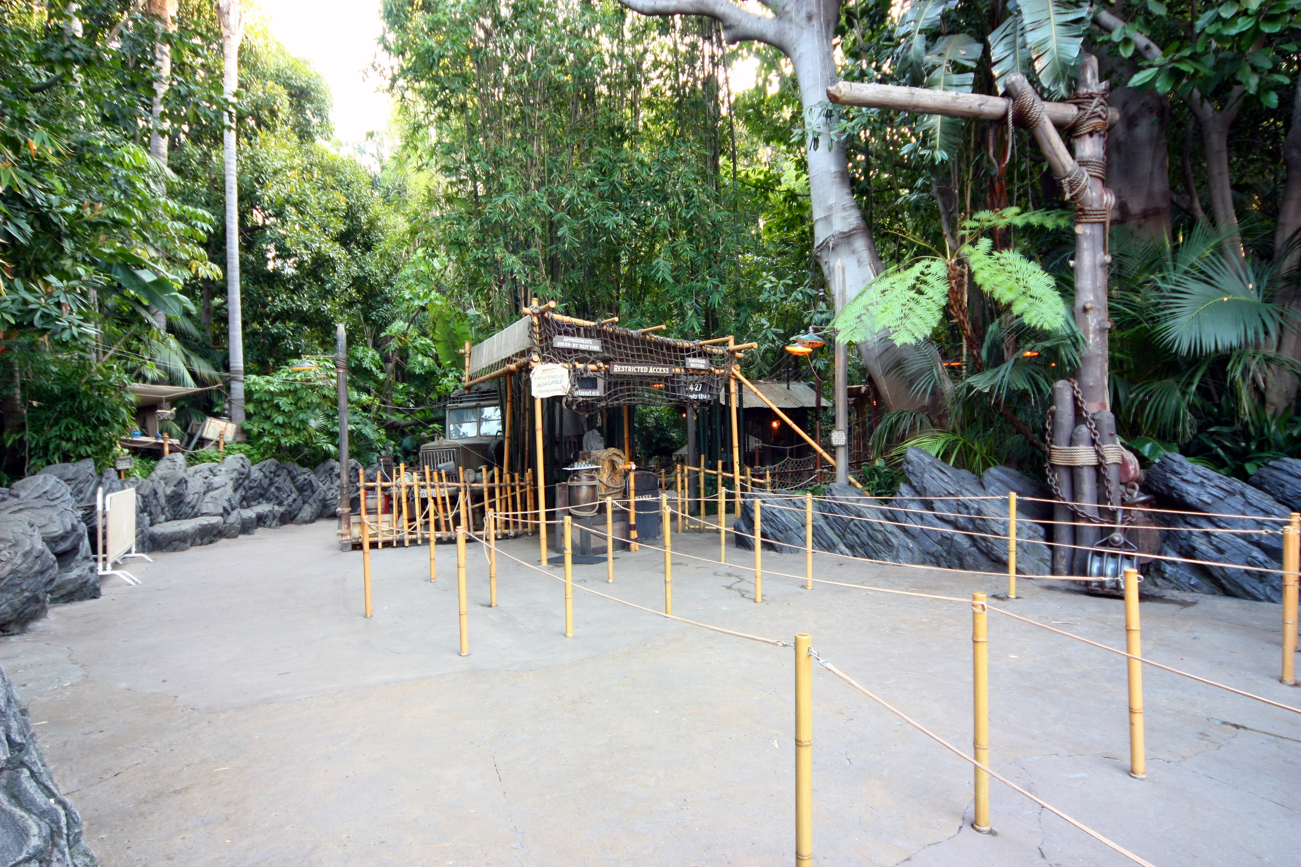 The main entrance to the queue of the Indiana Jones Adventure at Disneyland Park.